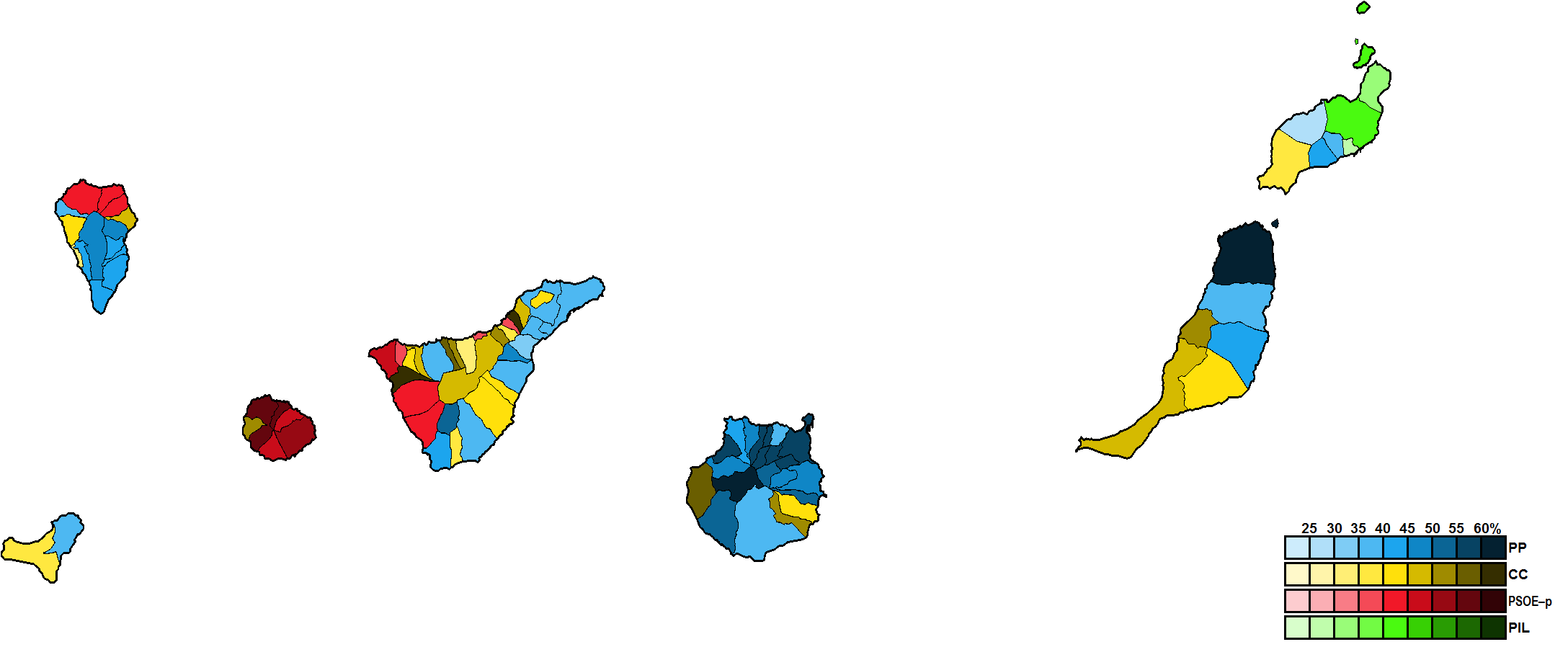 Most-voted party in Canary Islands municipalities, showing vote share obtained, in the Spanish general election, 2000.